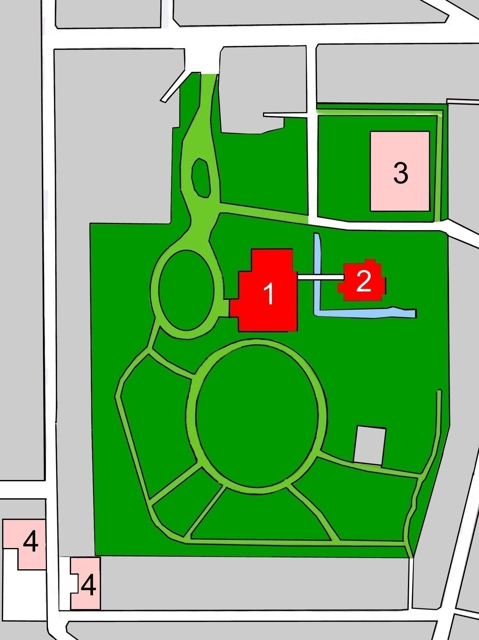 Layout of Komaba-Park, Meguro-ku, Tokyo, Japan